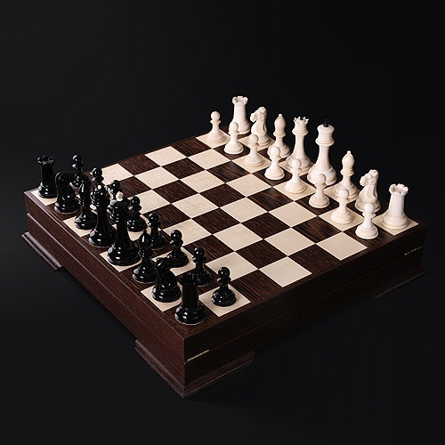 Staunton chess set